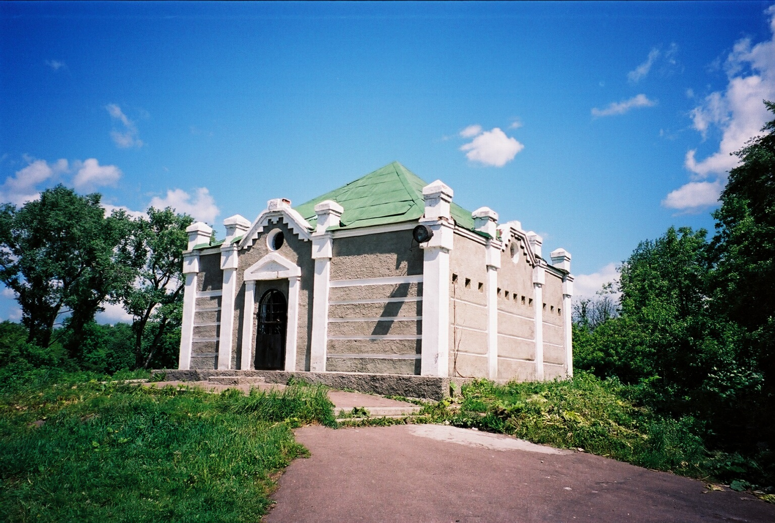 The tzion (mausoleum) of Rabbi Levi Yitzchak of Berdichev